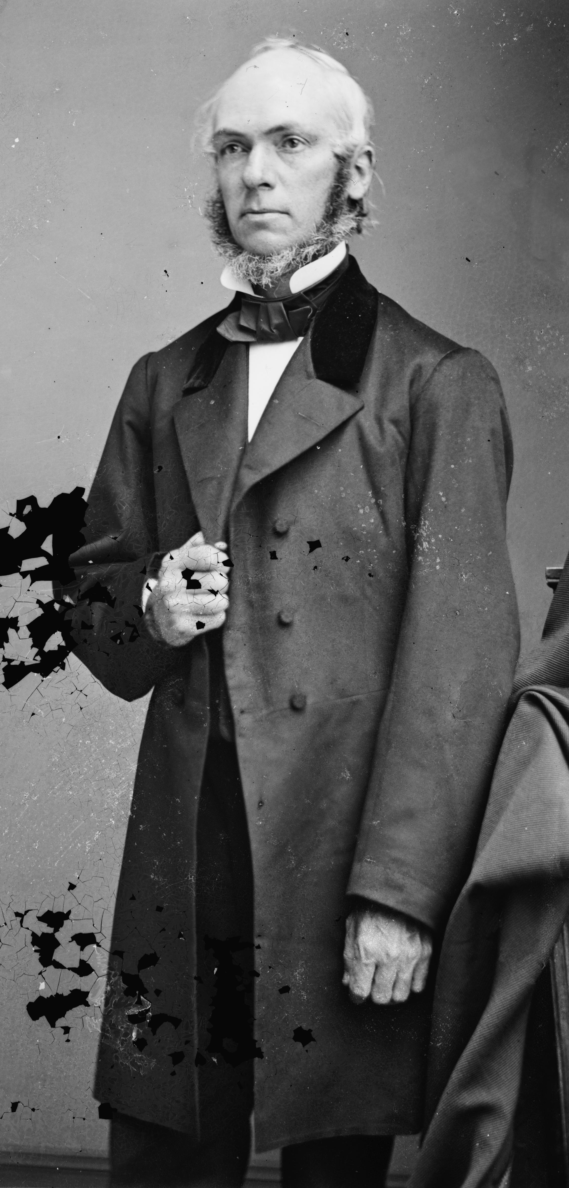 James Strong (theologian). Library of Congress description: "Prof. James Strong".